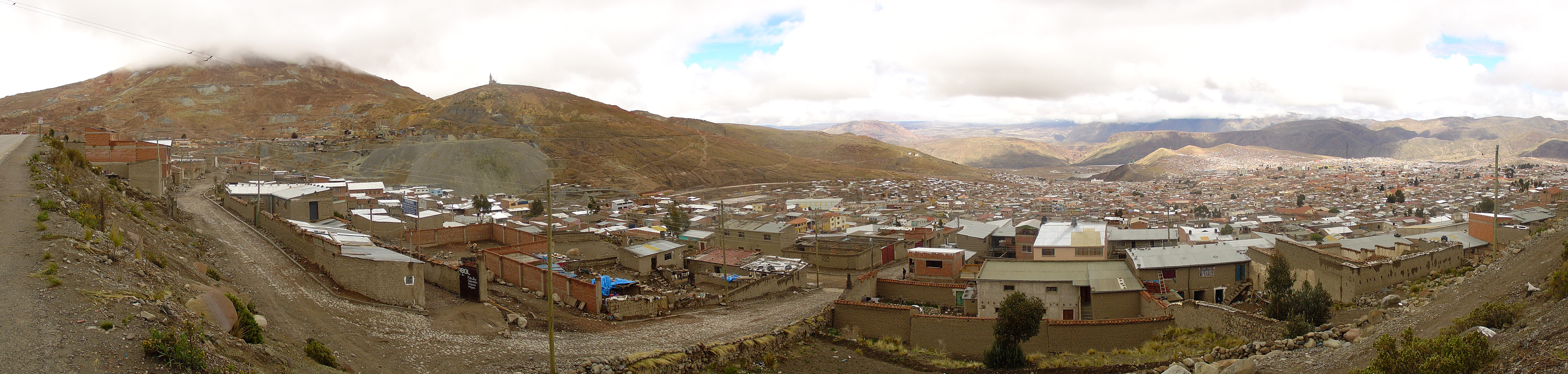 Please, have this description accessible to all by translating it in different languages.